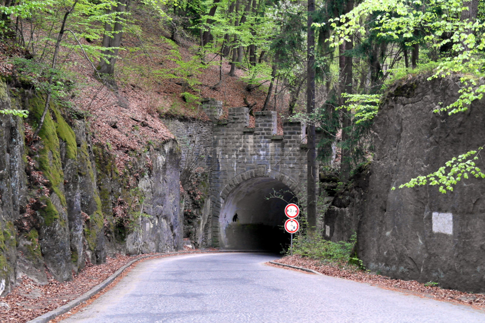 The tunnel, Kokořínský Důl, part of the Kokořín municipality, Mělník District. Located on the road from Kokořínský Důl to Kokořín municipality center.